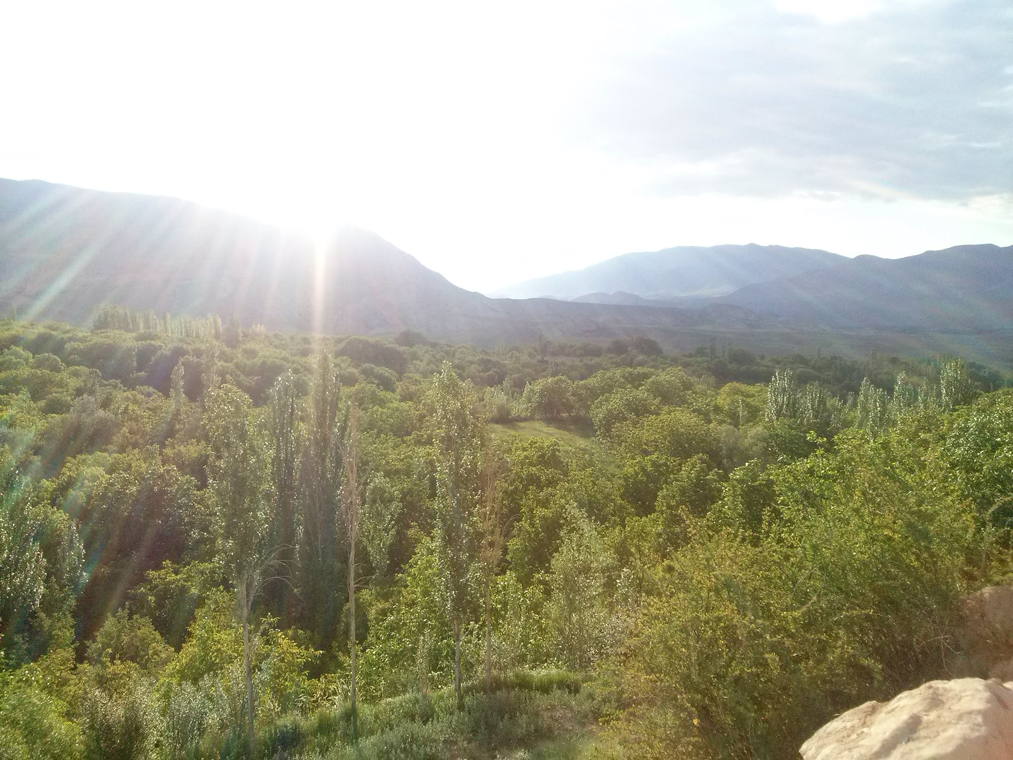 Oghaz Village, Shirvan, Iran